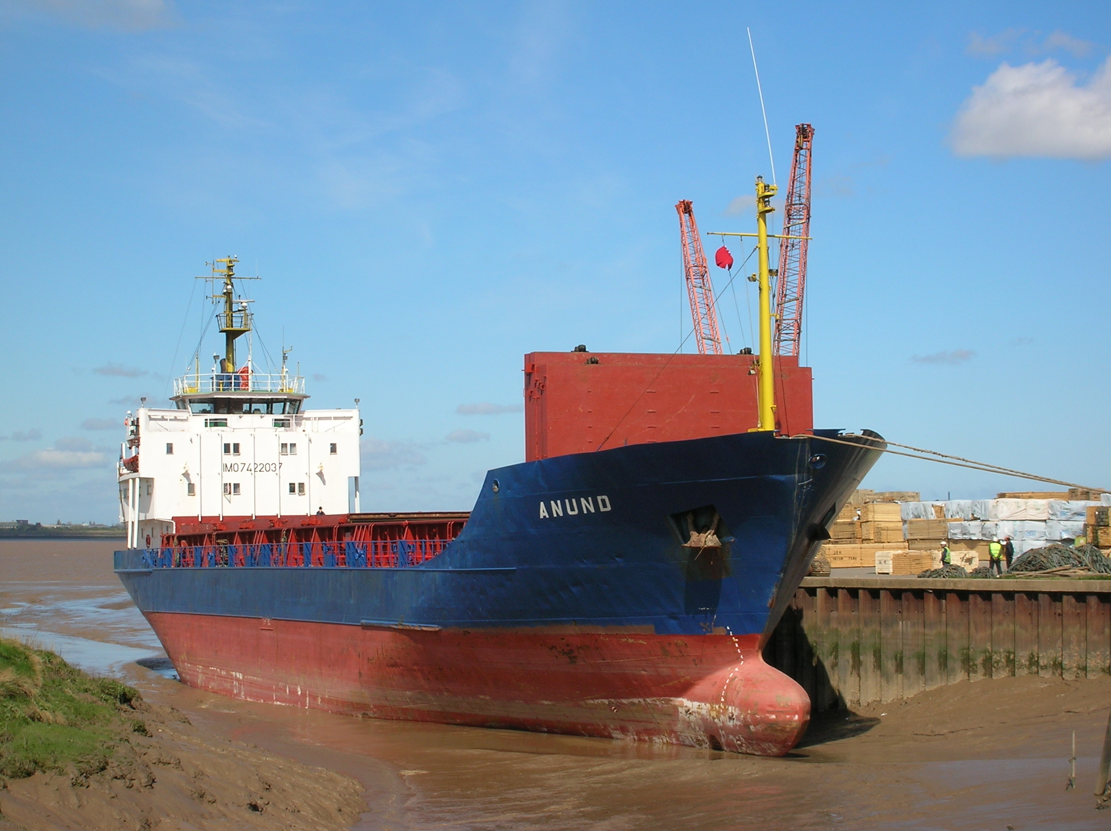 Photo taken at low tide. For picture at high water see